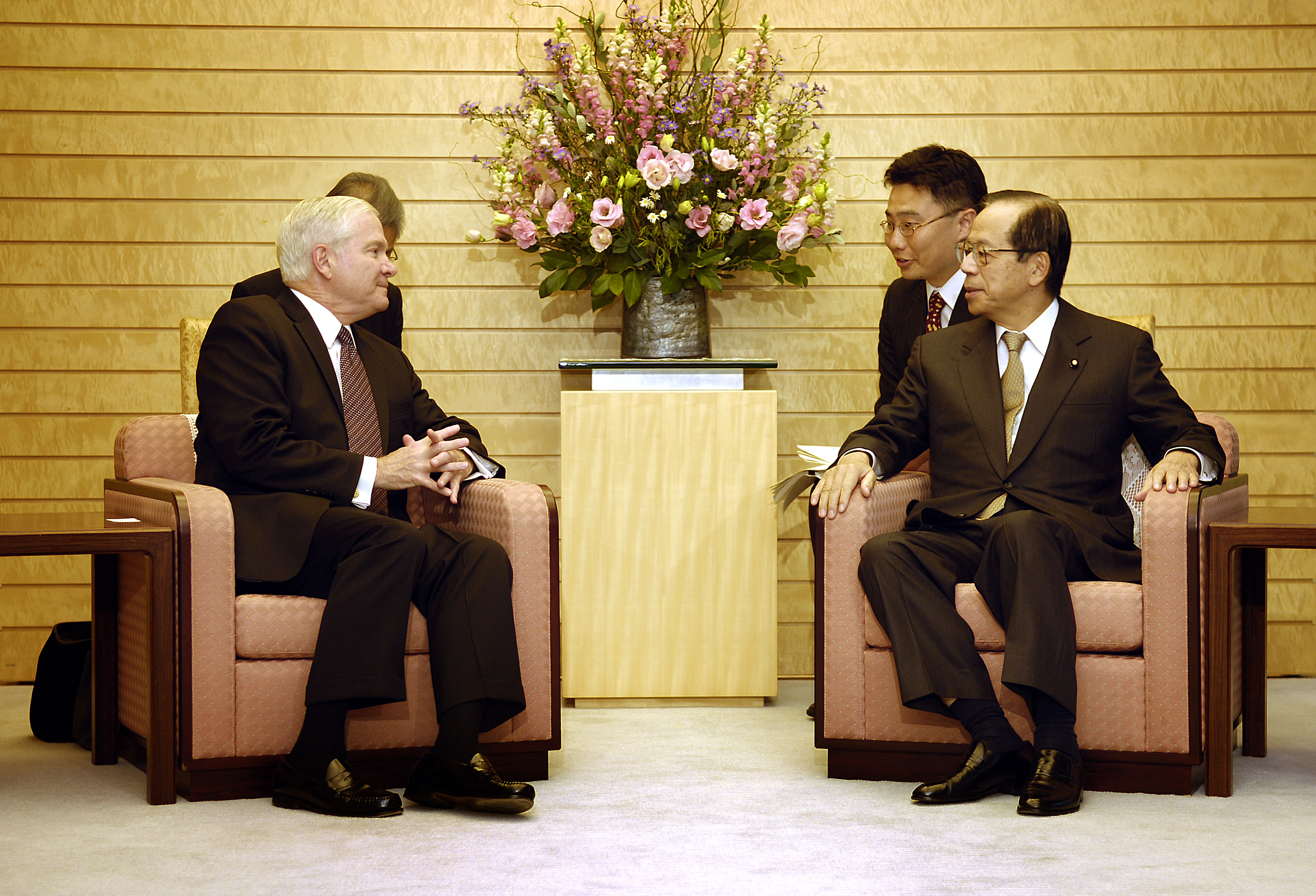 United States Defense Secretary Robert M. Gates meets with Japanese Prime Minister Yasuo Fukuda in Tokyo, Japan, Nov. 8, 2007.